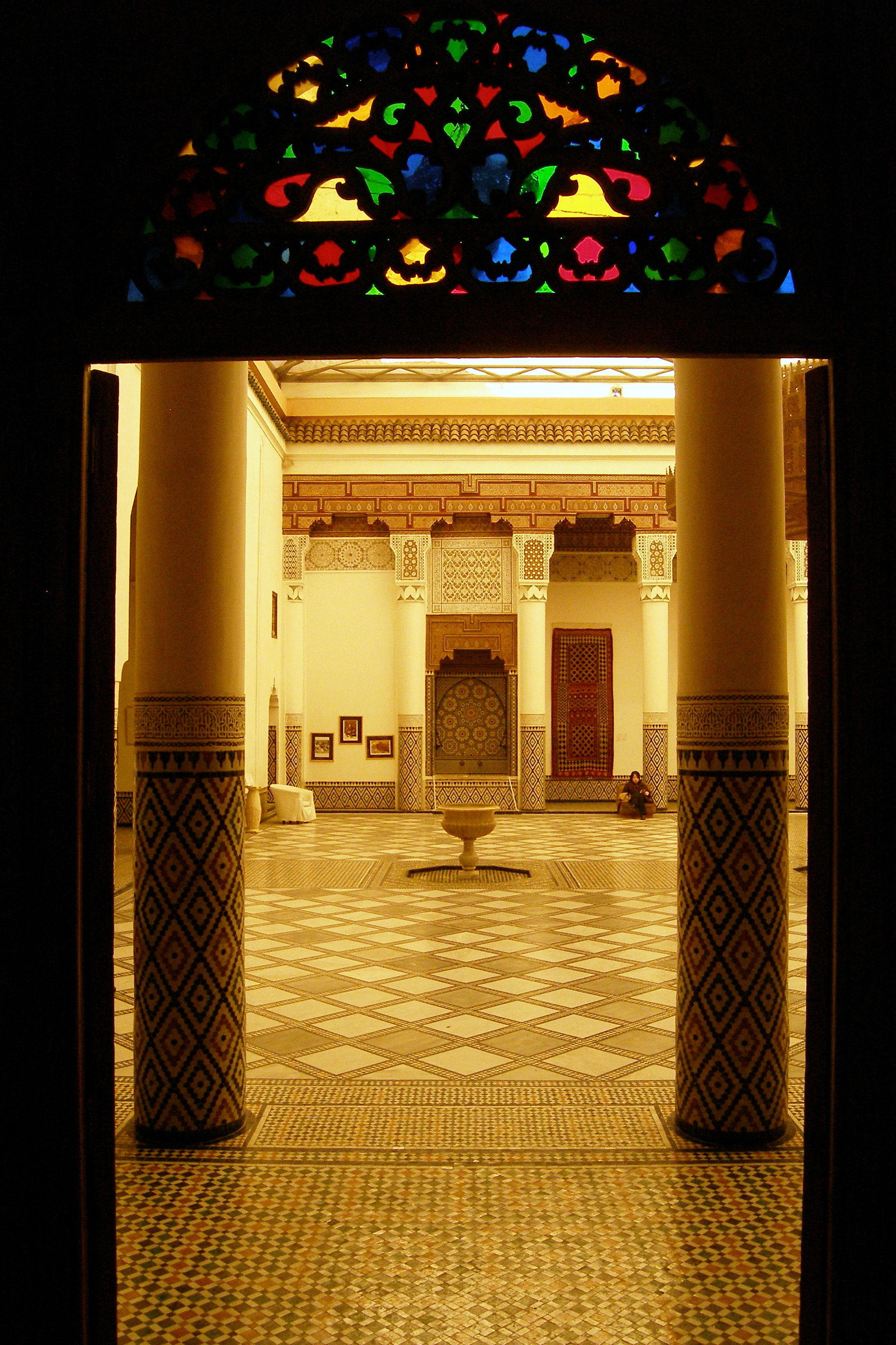 Patio of Musee de Marrakech.